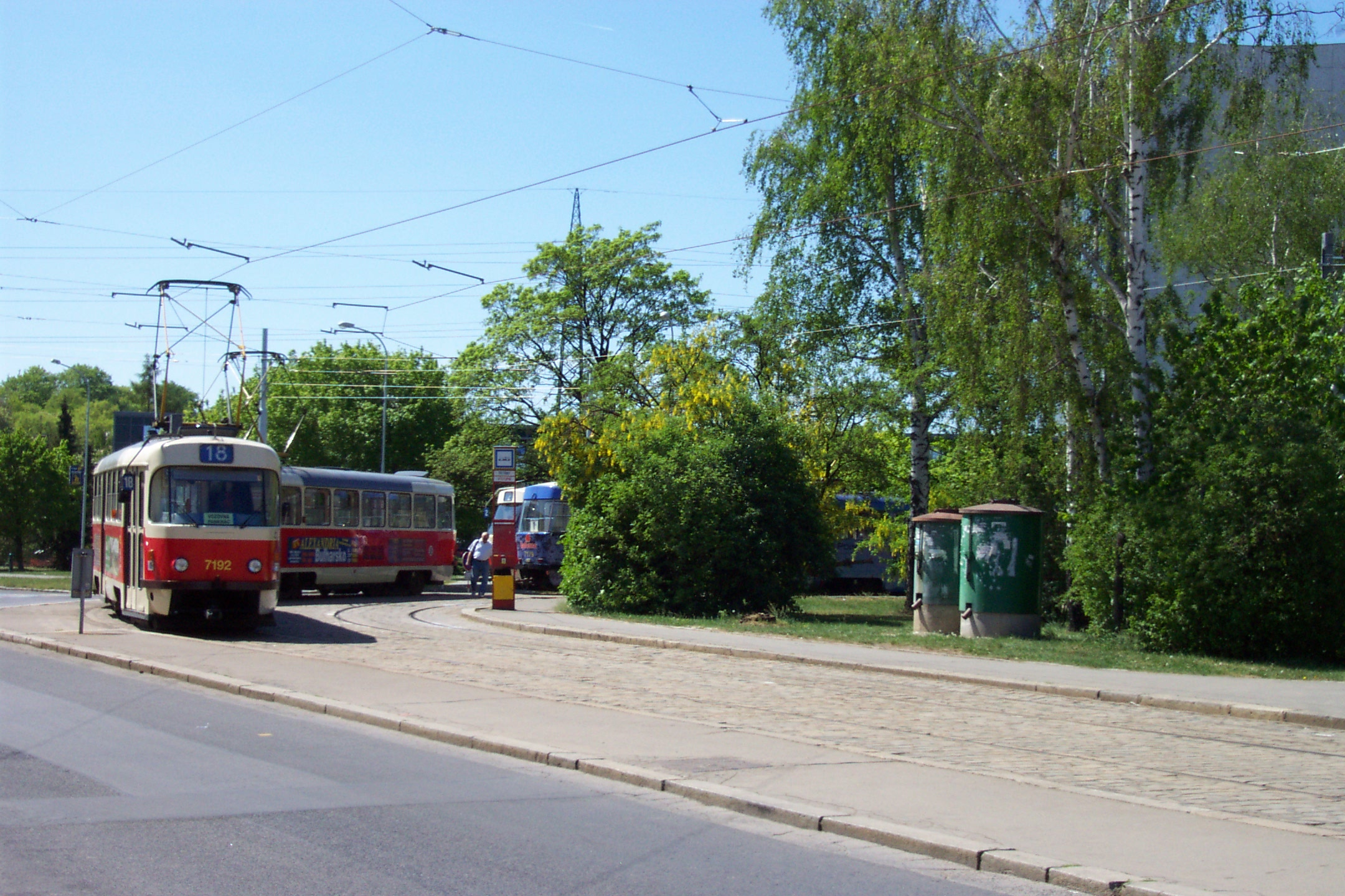 Tram terminus Petřiny in Praguehelp